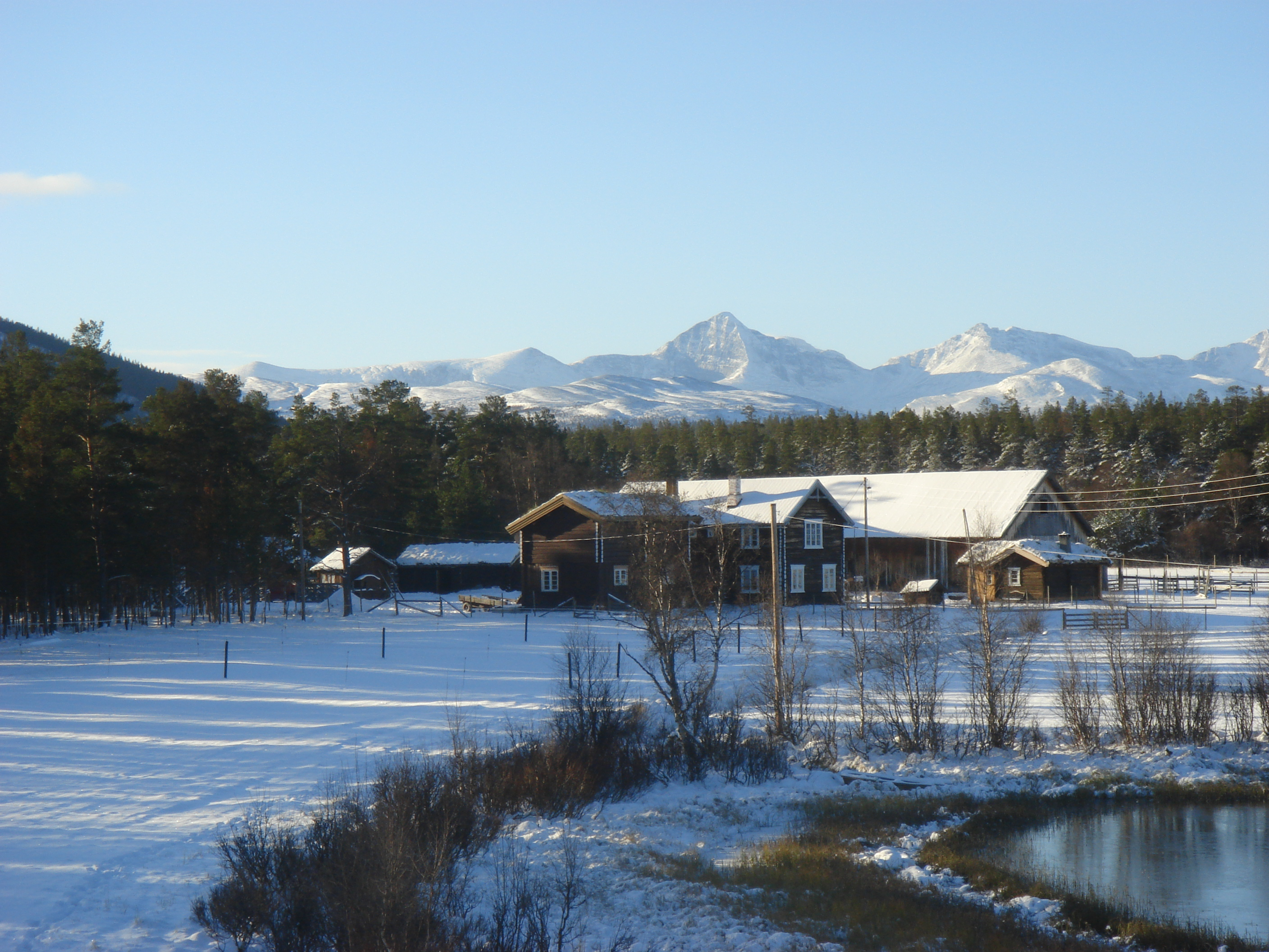 Kvebergsøya with the Rondane mountains as backdrop